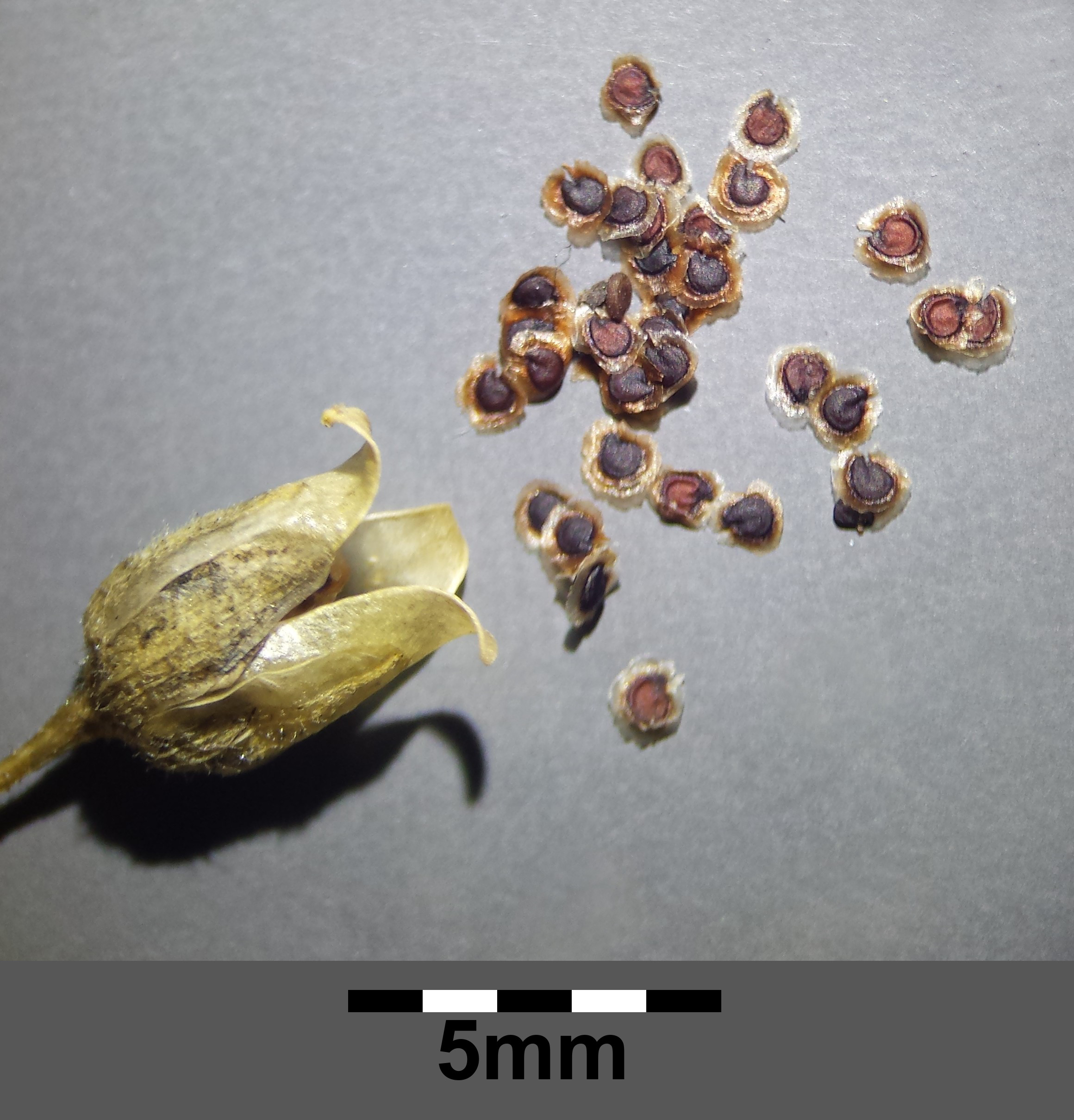 Fruit with seeds Taxonym: Spergularia maritima ss Fischer et al. EfÖLS 2008 ISBN 978-3-85474-187-9 Location: next to Zwingendorfer, district Mistelbach, Lower Austria - ca. 185 m a.s.l. Habitat: fallow land